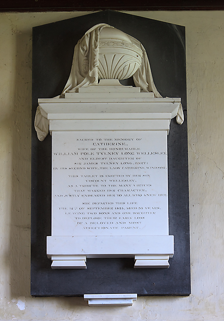 Monument to Catherine Pole-Tylney-Long-Wellesley - church of St James, Draycot Cerne